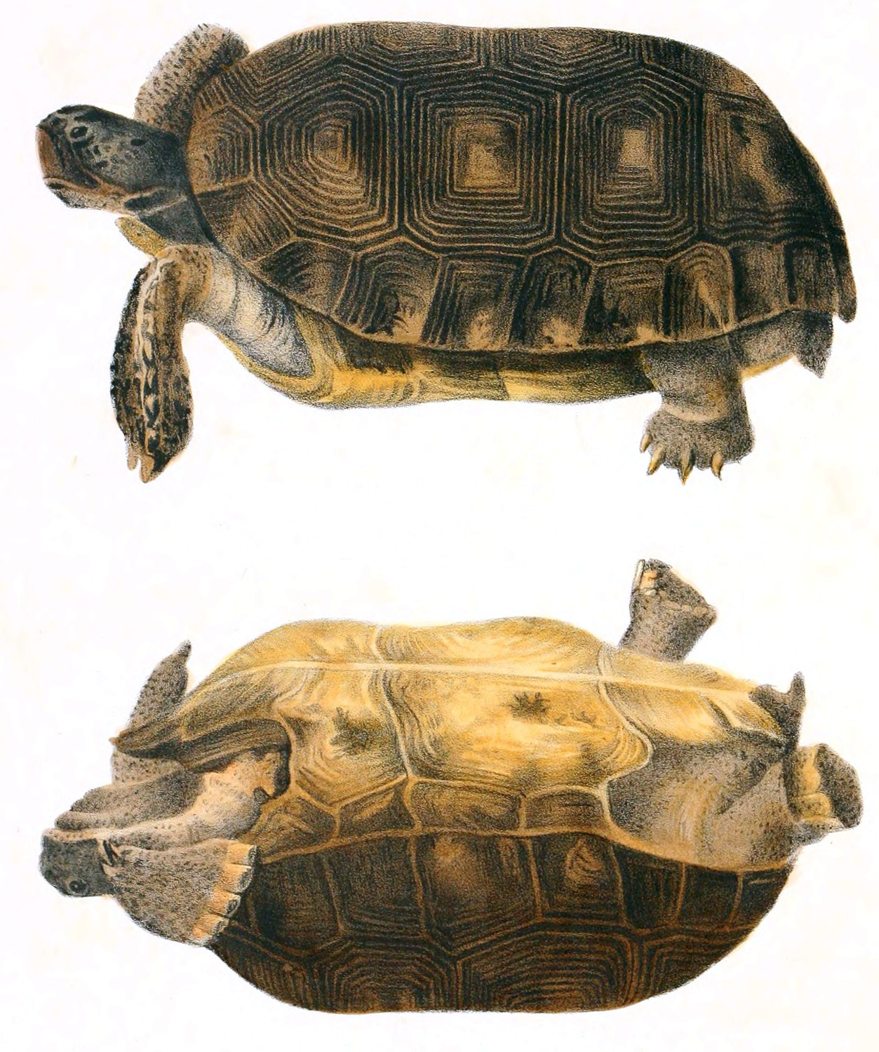 Gopher Tortoise, Gopherus polyphemus